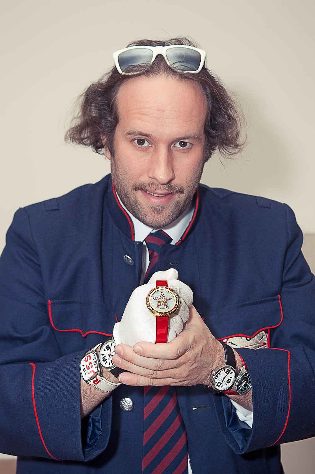 Jacques von Polier in Moscow - March 2012